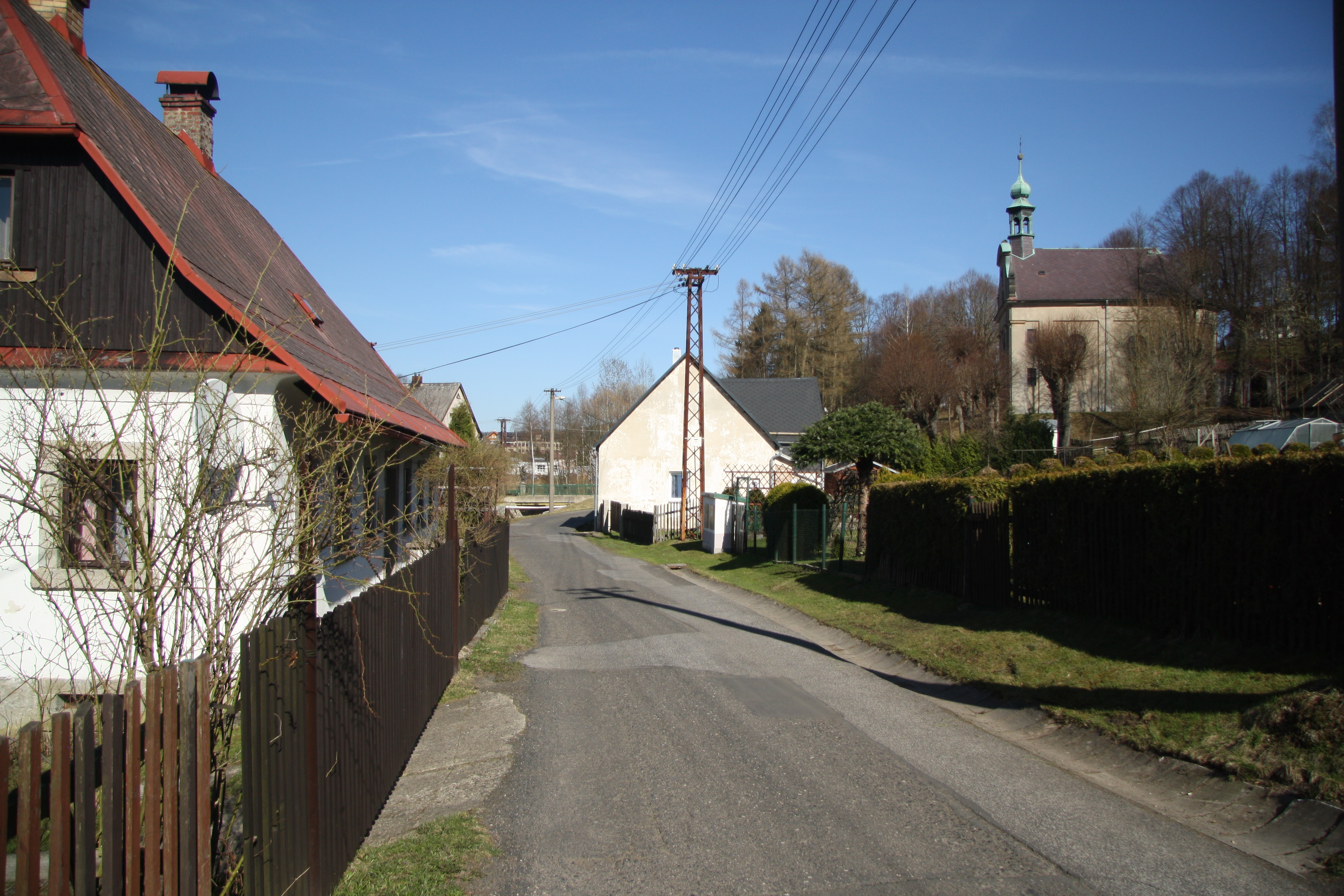 Center of Dolina, Vilémov, Děčín District.